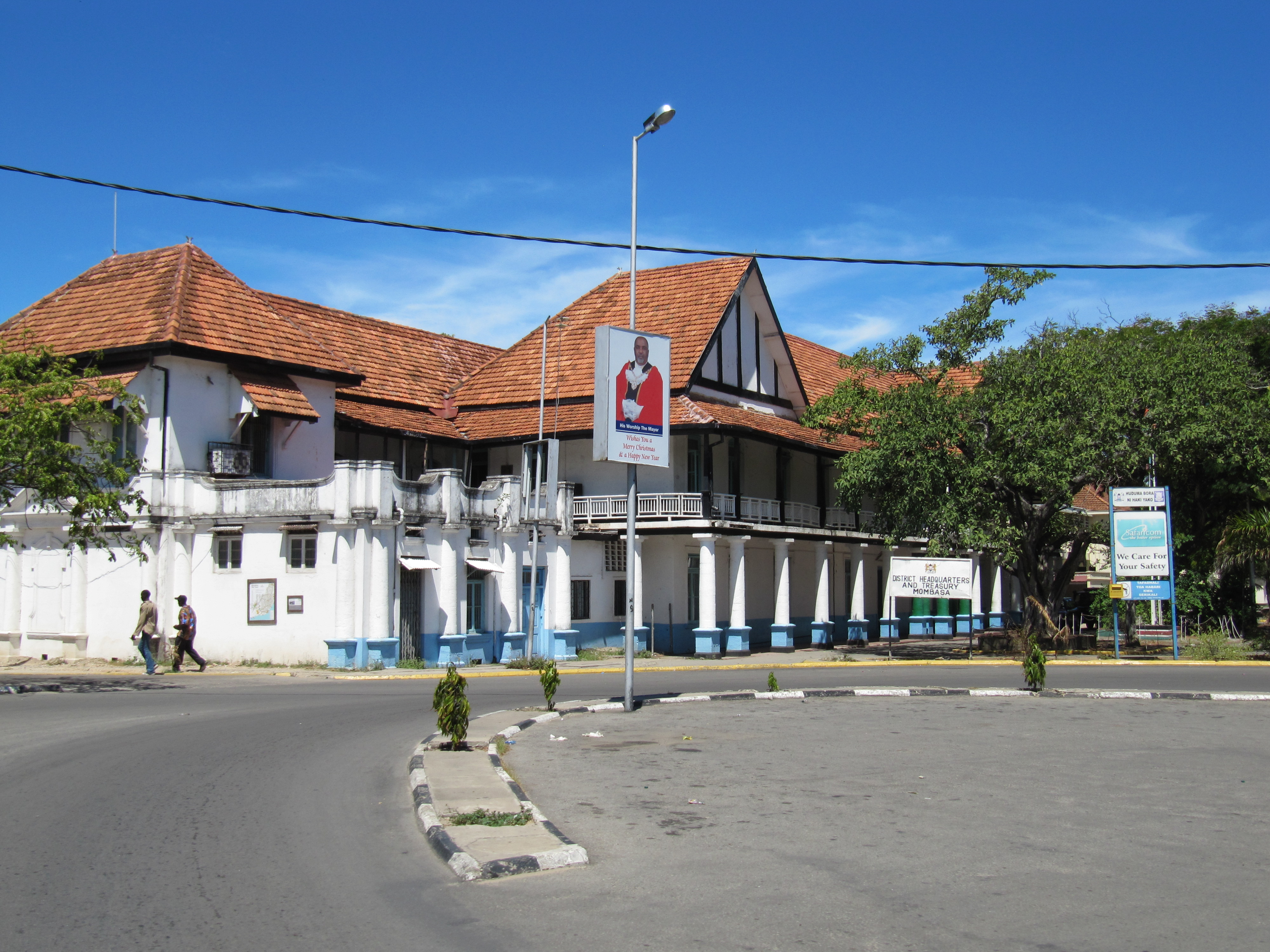 Mombasa District Headquarters and Treasury, Treasury Square, Mombasa, Kenya. The building is build in 1890